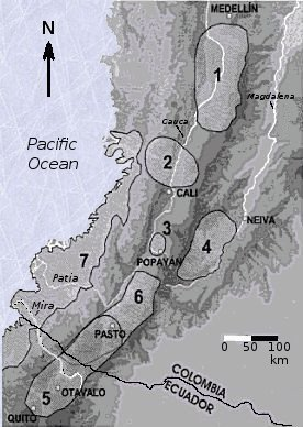 Pre-Columbian cultures of southwestern Colombia and northern Ecuador between 200 BC and 800 AD: 1.Quimbaya (II), 2.Calima (Yotoco-Malagana), 3.La Balsa, 4.San Agustín (II), 5.Capulí, 6.Piartal, 7.Tumaco-Tolita (II)